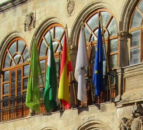 Flags on the town hall facade.